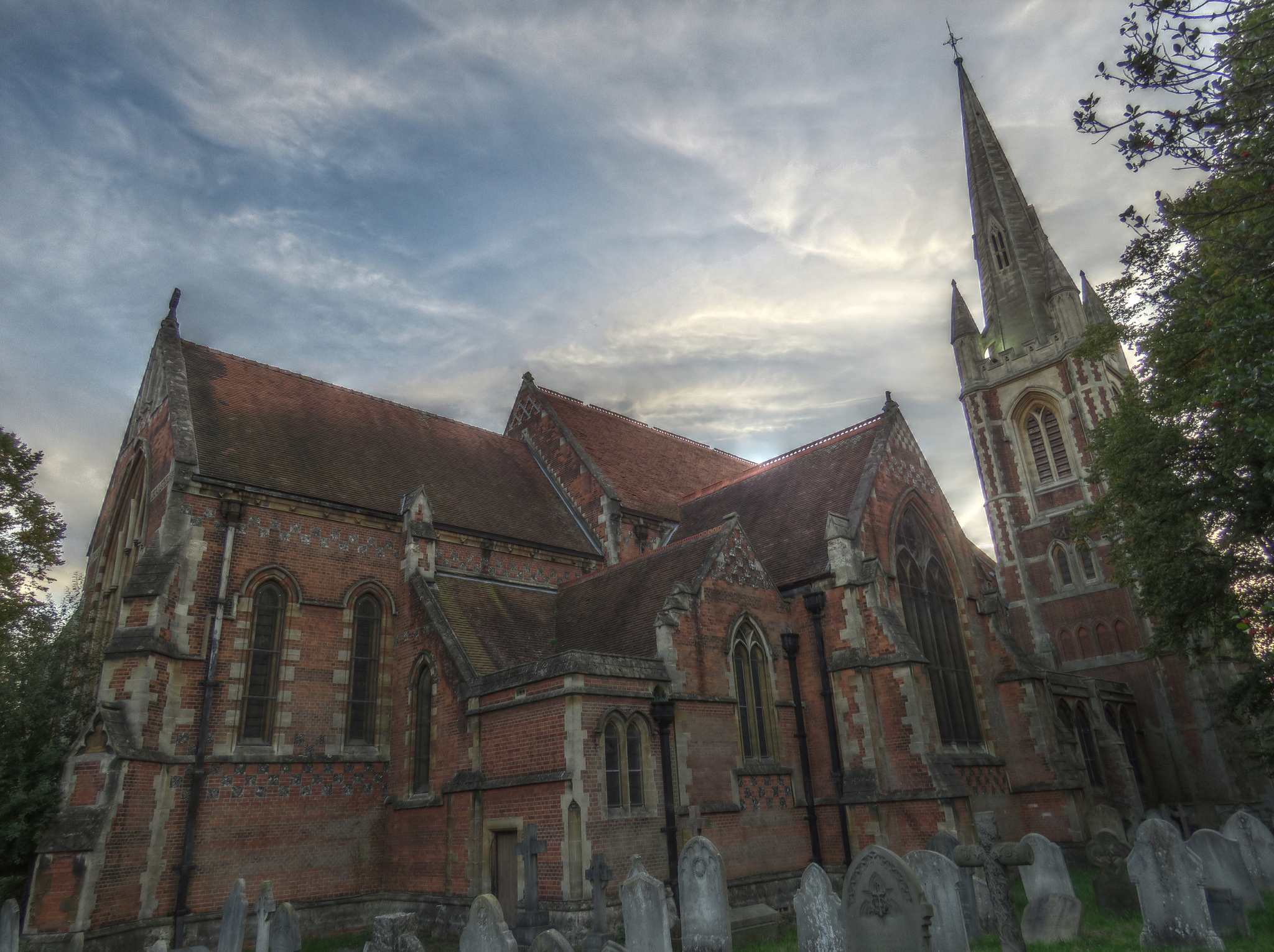 HDR composite photograph of St Mary's Church, Slough